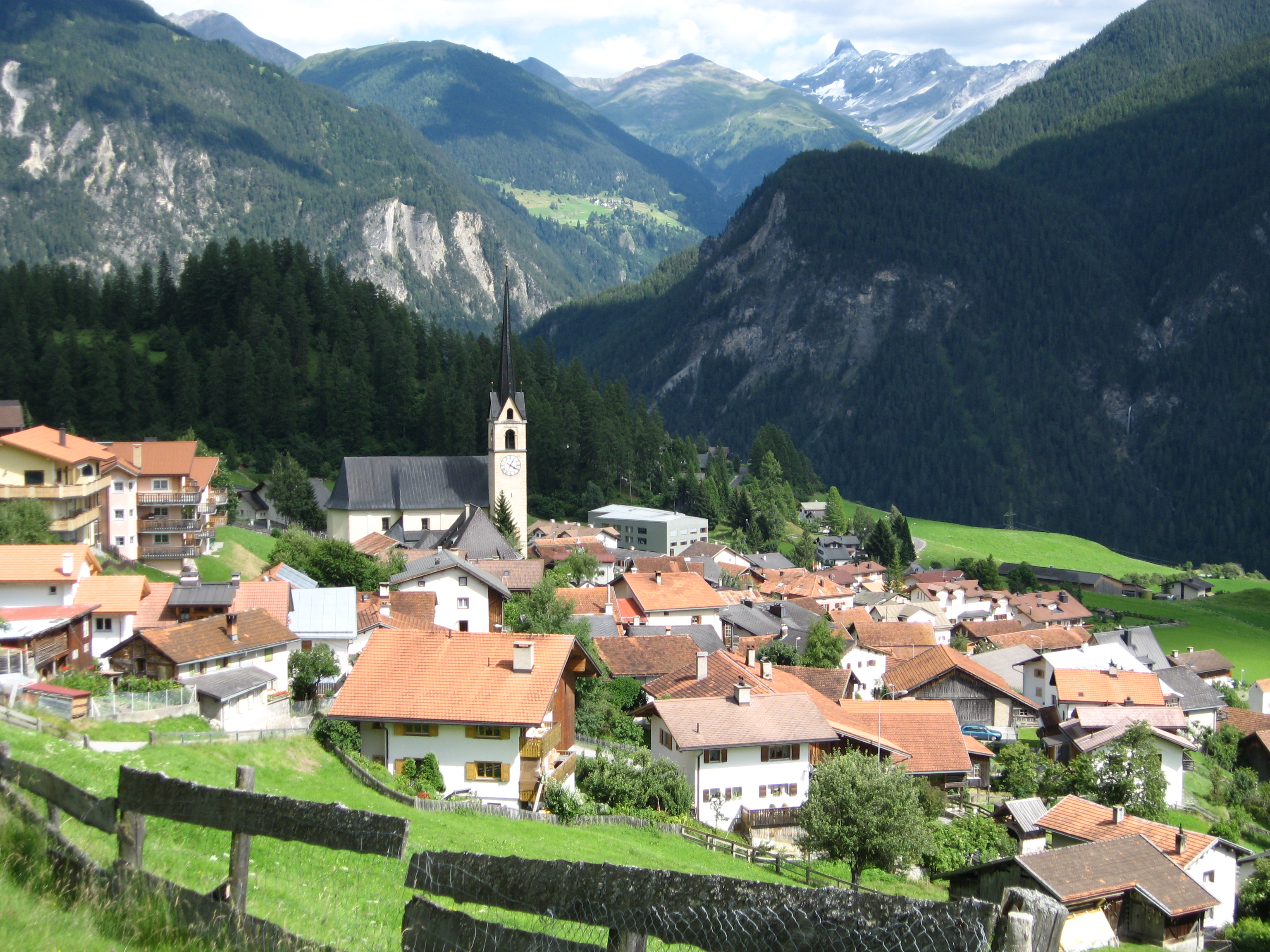 Alvaneu Dorf (Grisons; Switzerland) with view to south-east